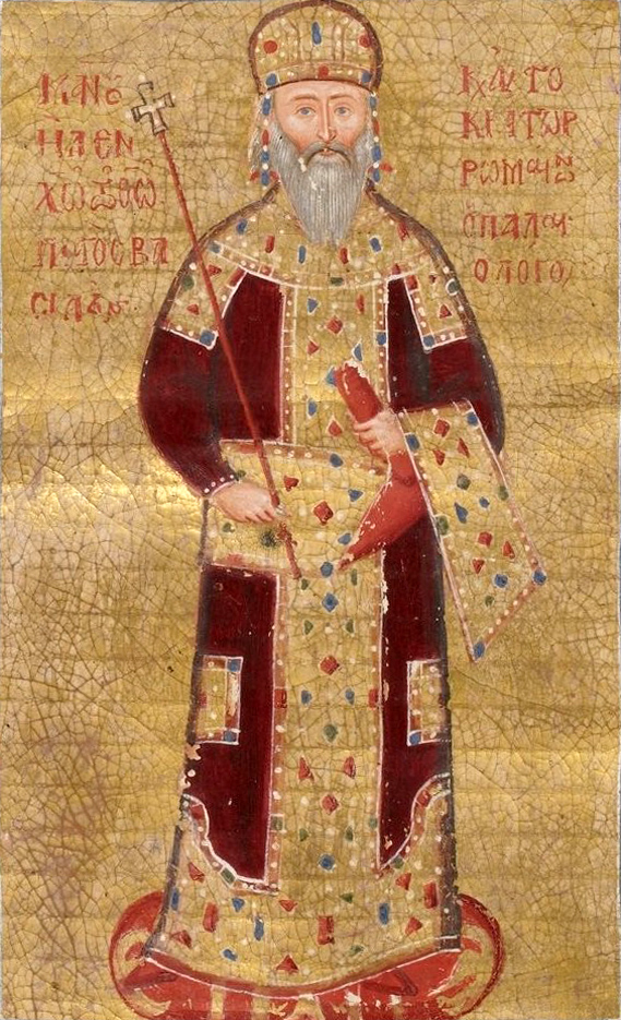 Manuel II Palaiologos, Byzantine Emperor from 1391 until his death in 1425.